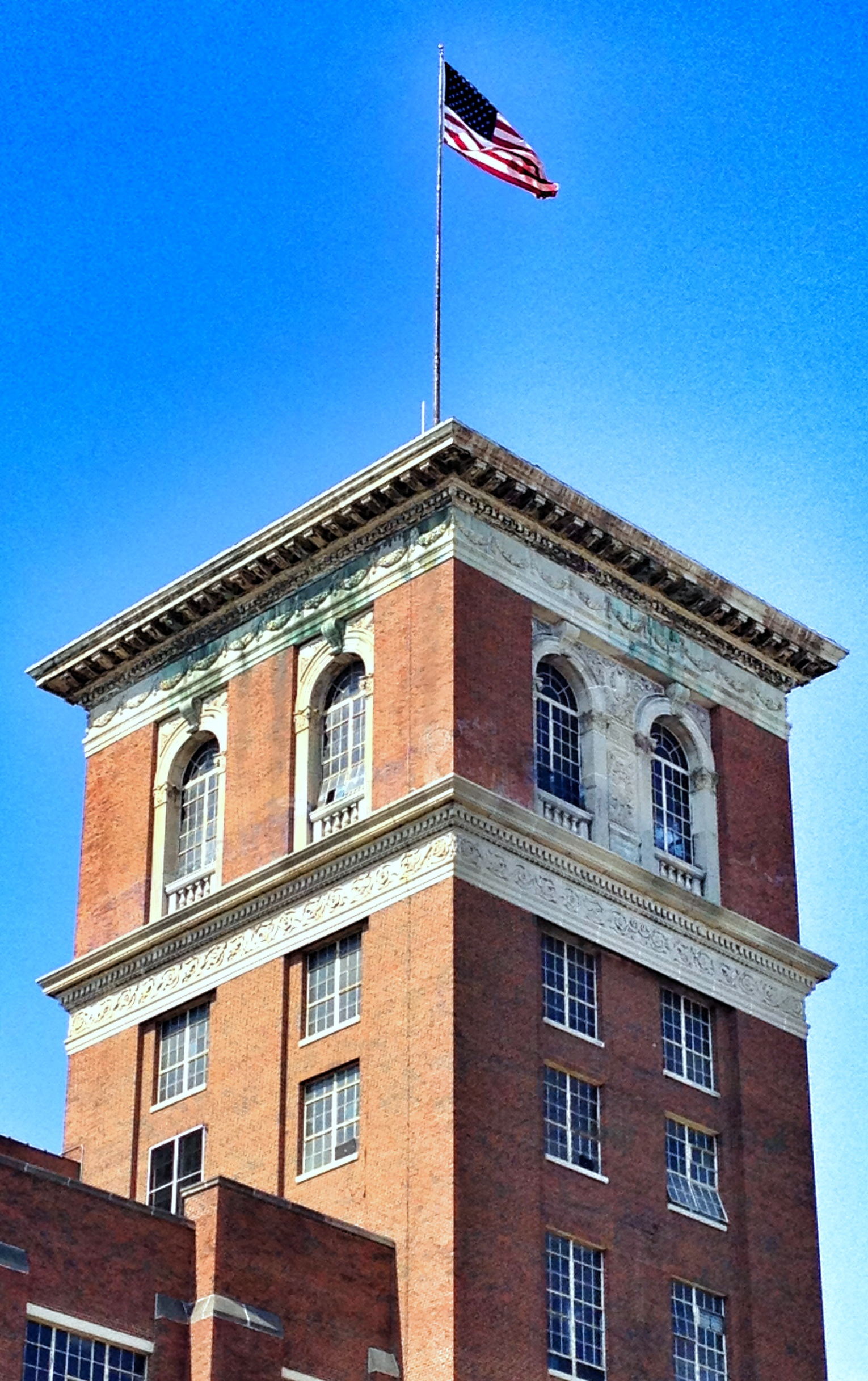 Ponce City Market, May 2012